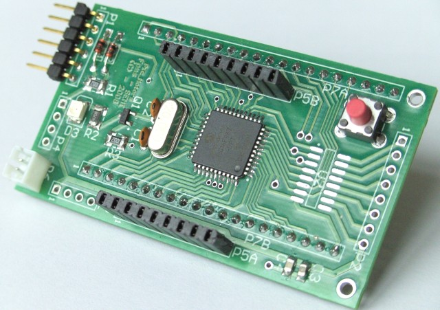 Card Mini Simius